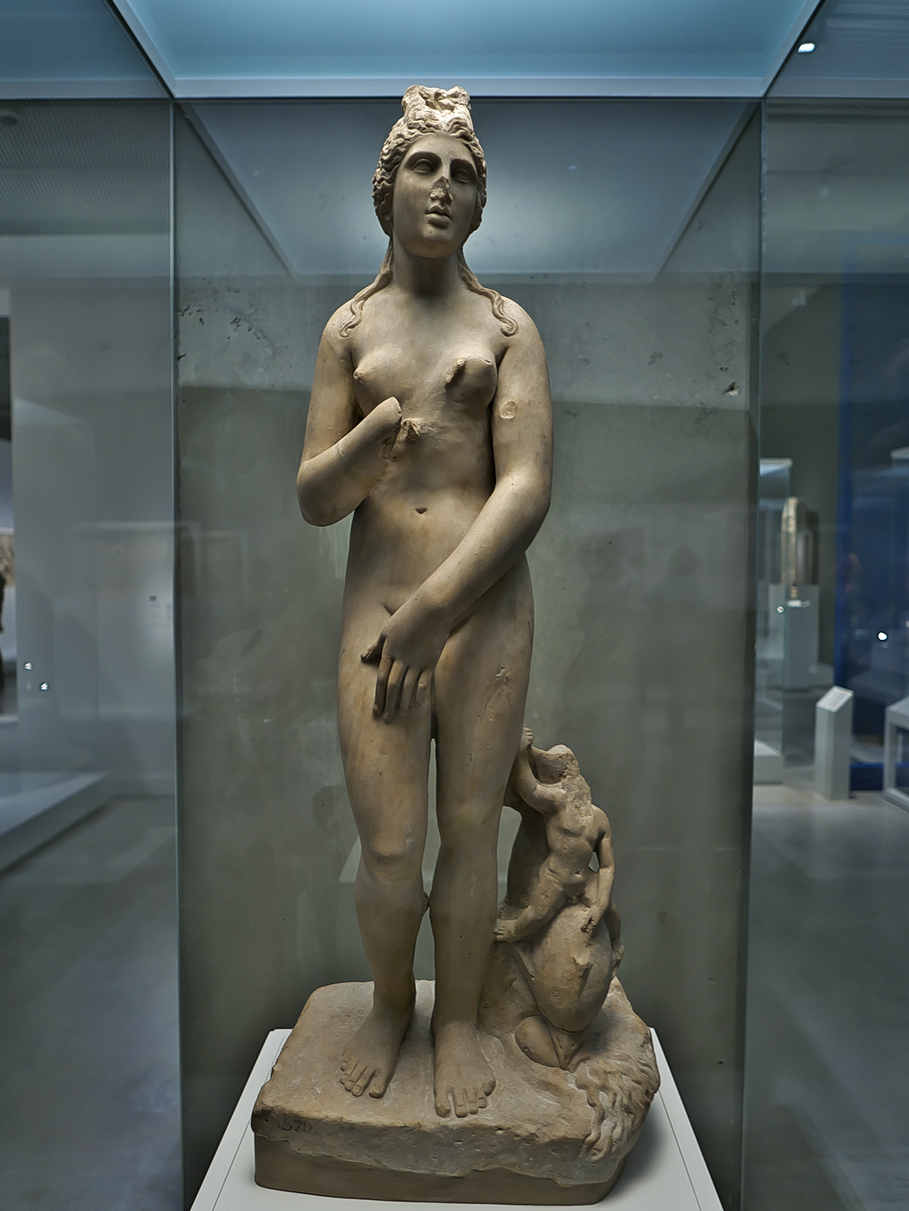 Aphrodite, goddess of love. Marble statue. Made (c. AD 1-100) from a Greek. Original (c. 250BC). From Athens.